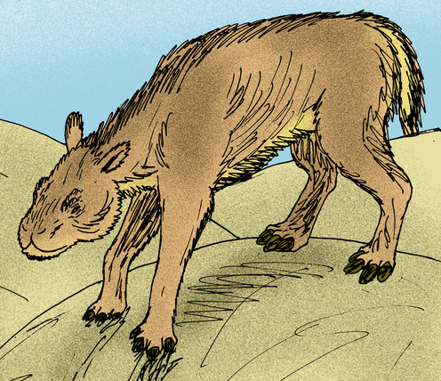 The desert-dwelling oreodont, Leptauchenia decora, of Late Oligocene North America.